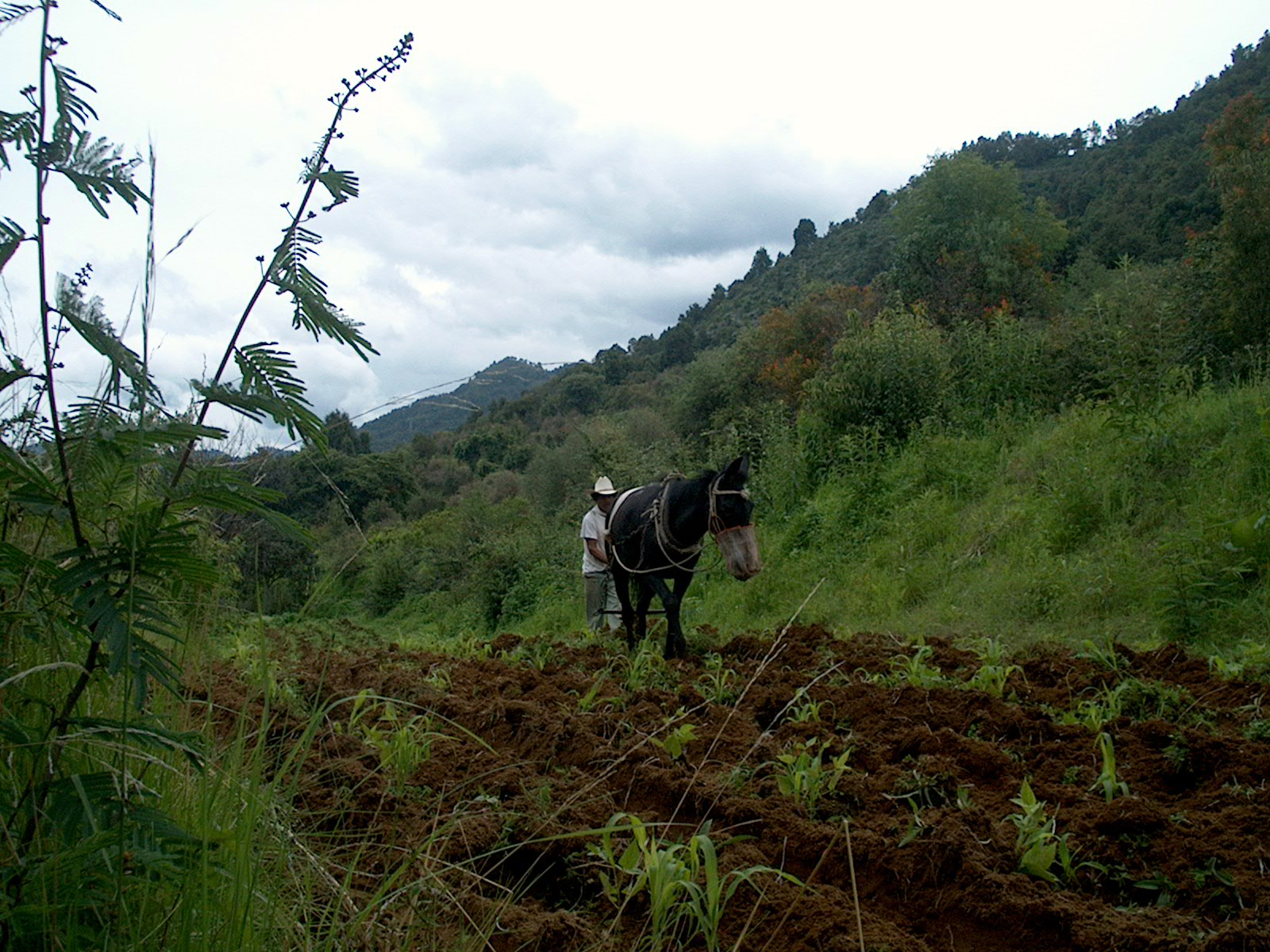 Nahua man of Morelos plowing a bean field